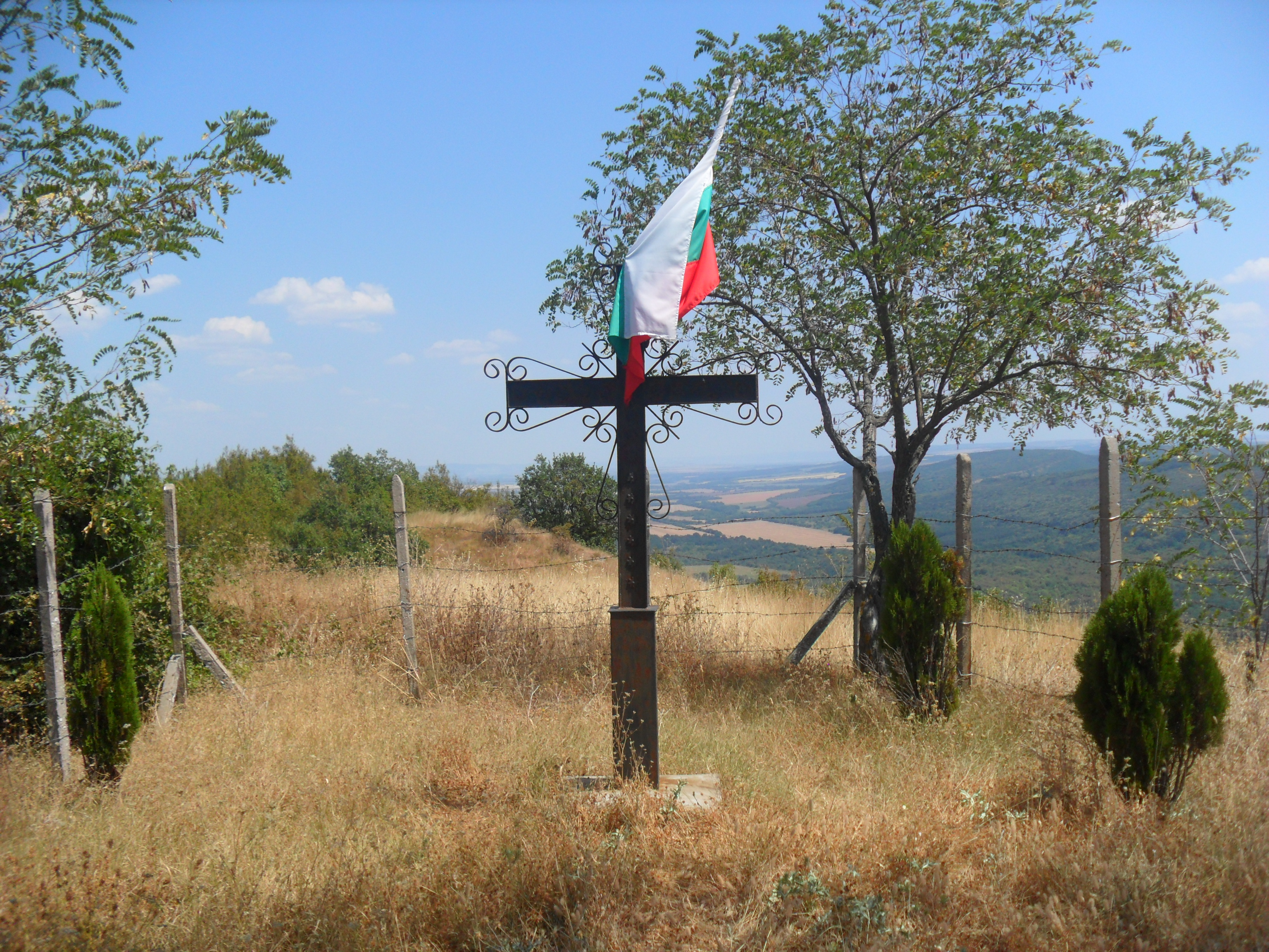 The legend told us,that on this place Kulata had a Monastery and Fortress